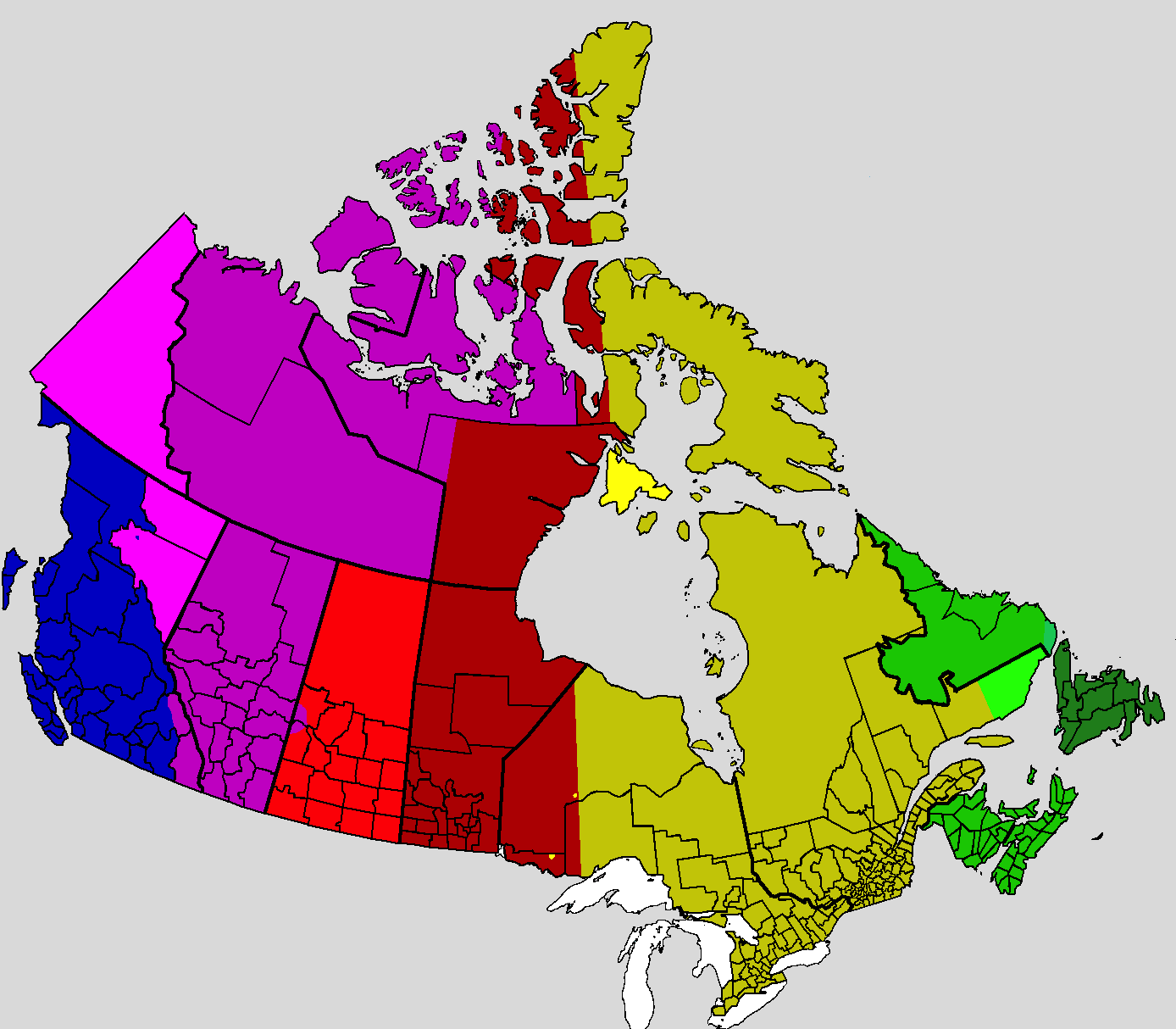 Time Zones of Canada